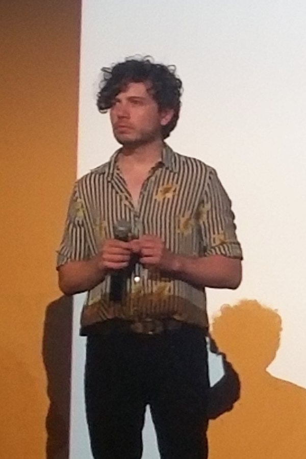 Filipe Matzembacher at a Q&A session for Hard Paint at Frameline at the Castro Theatre in San Francisco, California, United States